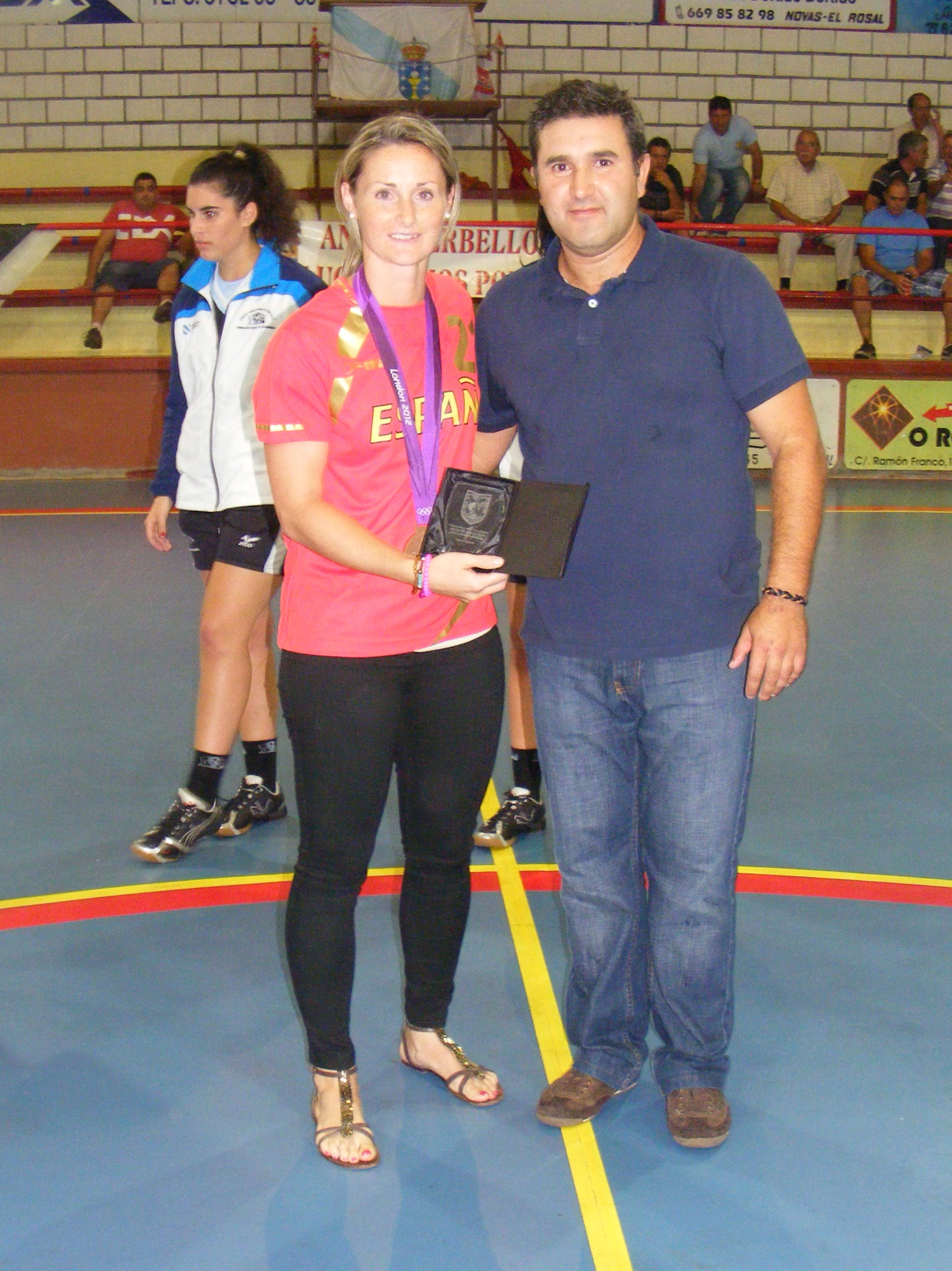 In the Torneo do Rosal 2012, Vanessa Amorós Spanish handball player and Roberto Fernández former president of Mecalia Atlético Novás and Spanish humorist.